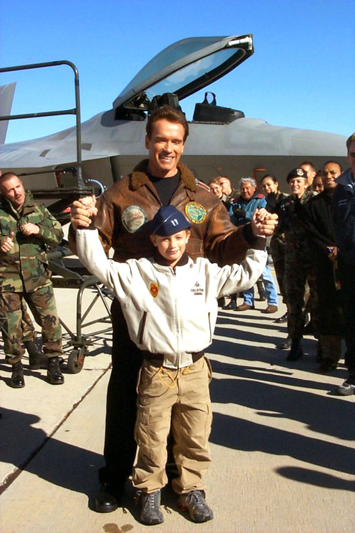 Arnold Schwarzenegger and son Patrick at Edwards Air Force Base, California in December 2002.